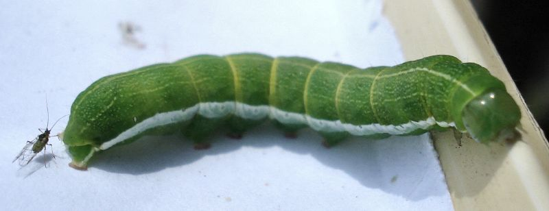 DSC00129 Larvae of the Grey Chi moth, Antitype chi